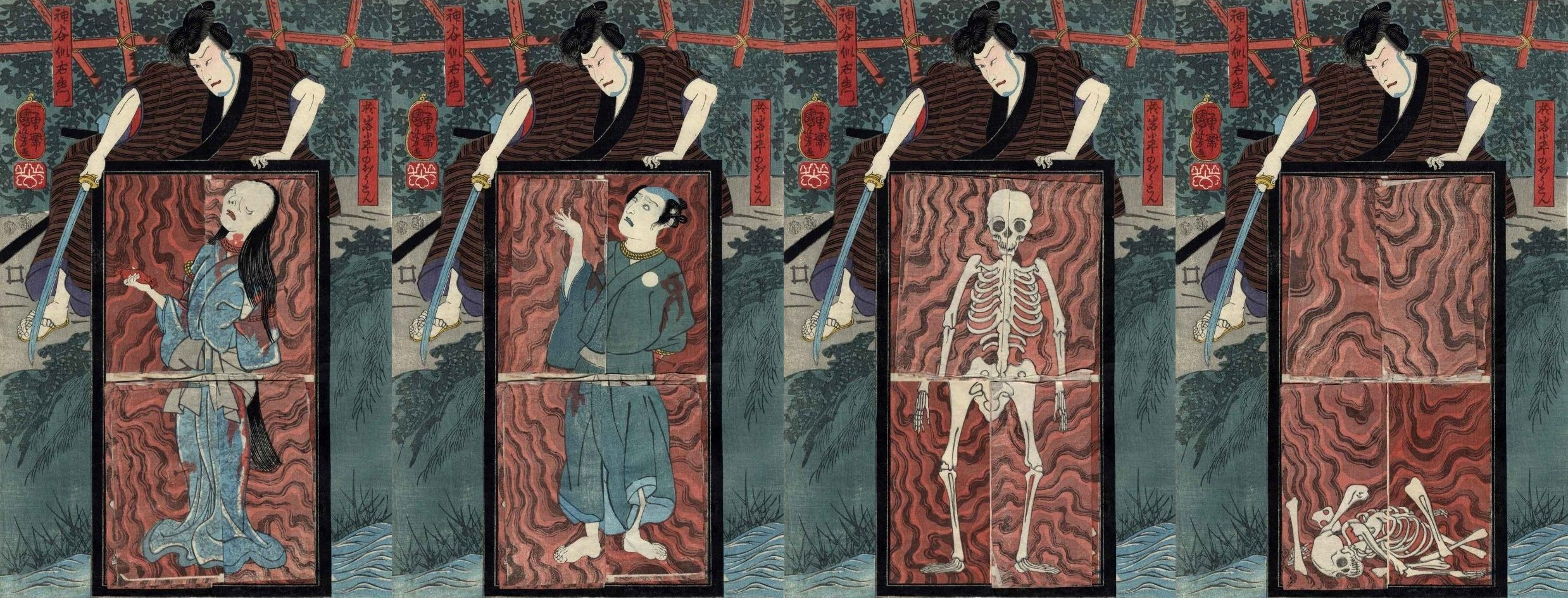 Ichikawa Danjûrô VIII as Tamiya Iemon (神谷仁右衛門) in the kabuki play Manete Mimasu yotsuya no kikigaki (当三升四谷聞書), 9th month of 1848. This komochi-e or trick pictures shows a single print with the flaps in different positions